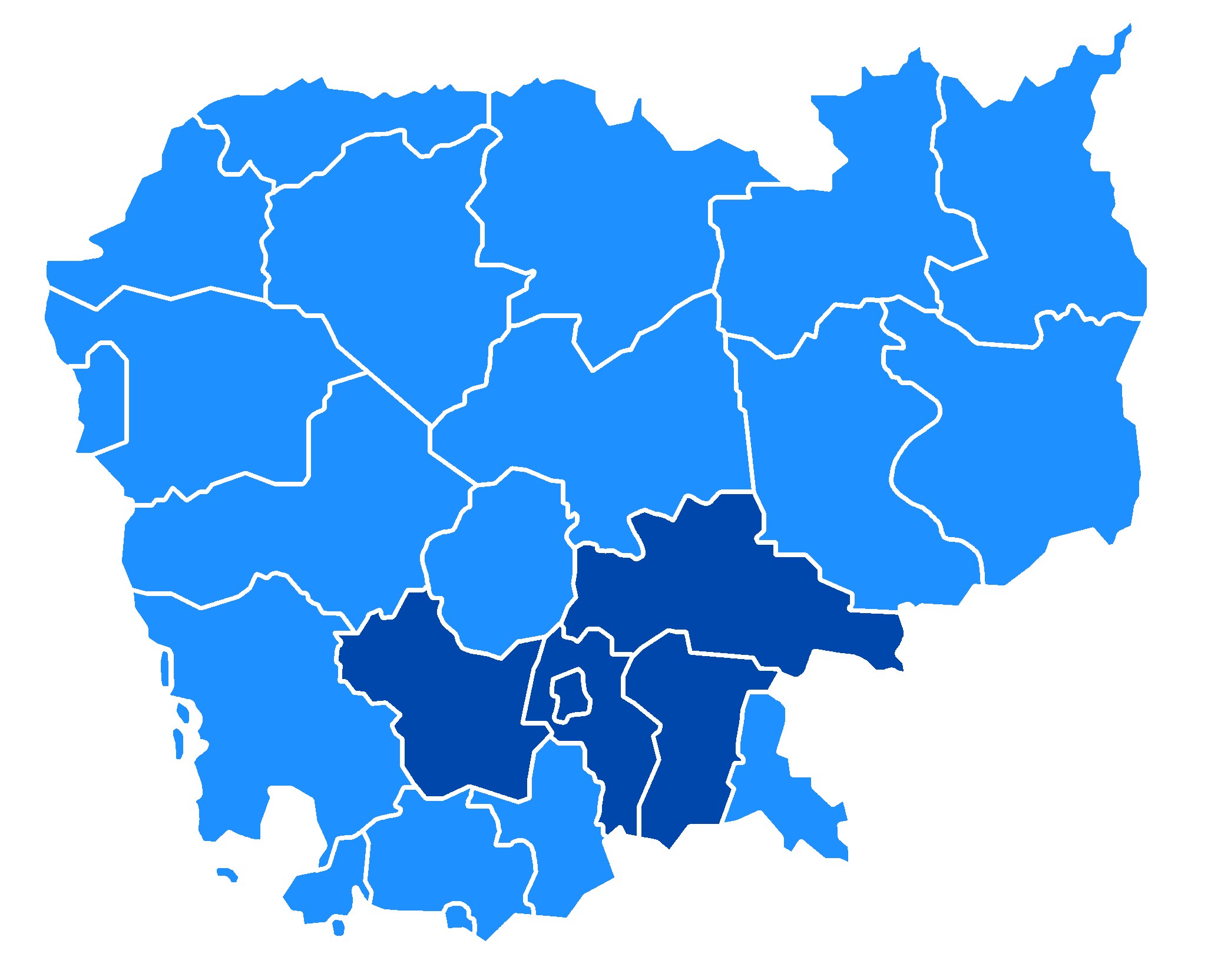 Results map of the 2013 Cambodian general election.